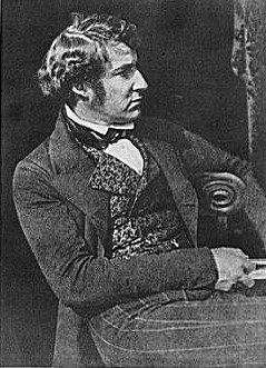 Title Portrait photograph of Mr. James Stuart-Wortley Contributor Names Genthe, Arnold, 1869-1942, photographer Hill, David Octavius, 1802-1870, photographer Adamson, Robert, 1821-1848, photographer Created / Published between 1896 and 1942; from a print. Format Headings Calotypes--Reproductions. Lantern slides. Portrait photographs--Reproductions. Notes - Title devised. Lantern slide reproduction by Arnold Genthe of a calotype by David Octavius Hill and Robert Adamson. - Purchase; Genthe Estate; 1942 or 1943. Medium 1 slide : lantern ; 4 x 5 in. or smaller. Call Number/Physical Location LC-G4085- 0451 [P&P]